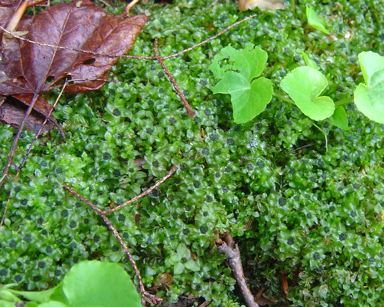 Plagiomnium cuspidatum, Koffler Scientific Reserve / Joker's Hill Biological Station, Ontario, Canada. Sometimes called "moss flowers", i.e. where the archegonia and perhaps also the antheridia are clustered. Growing on the soil, as this species does.